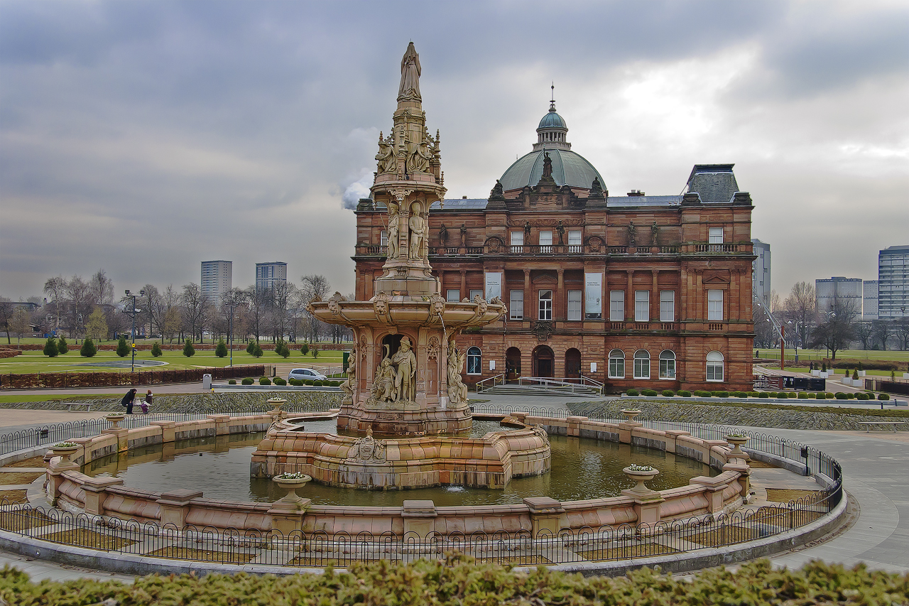 Glasgow Museums & Art Galleries Glasgow